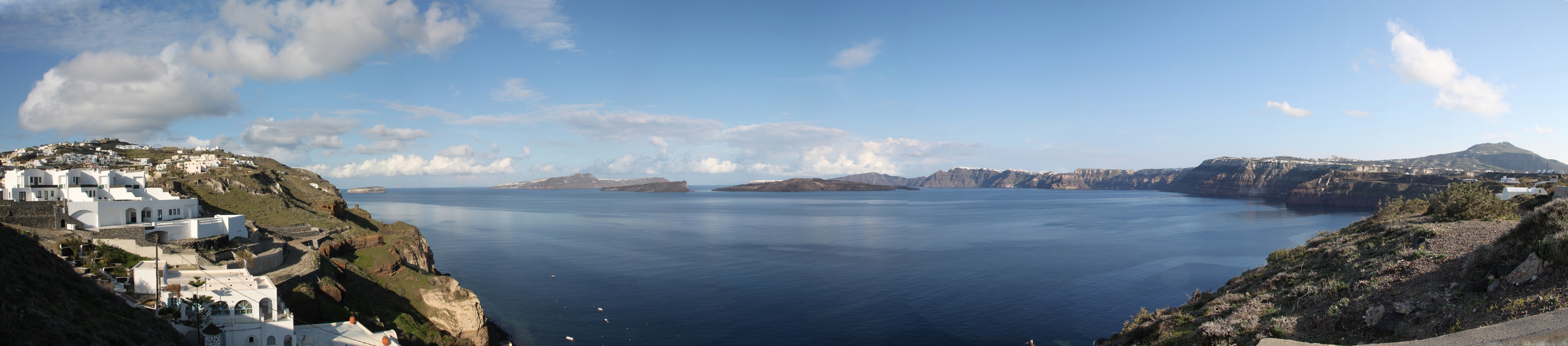 Caldera View from Akrotiri of Santorini